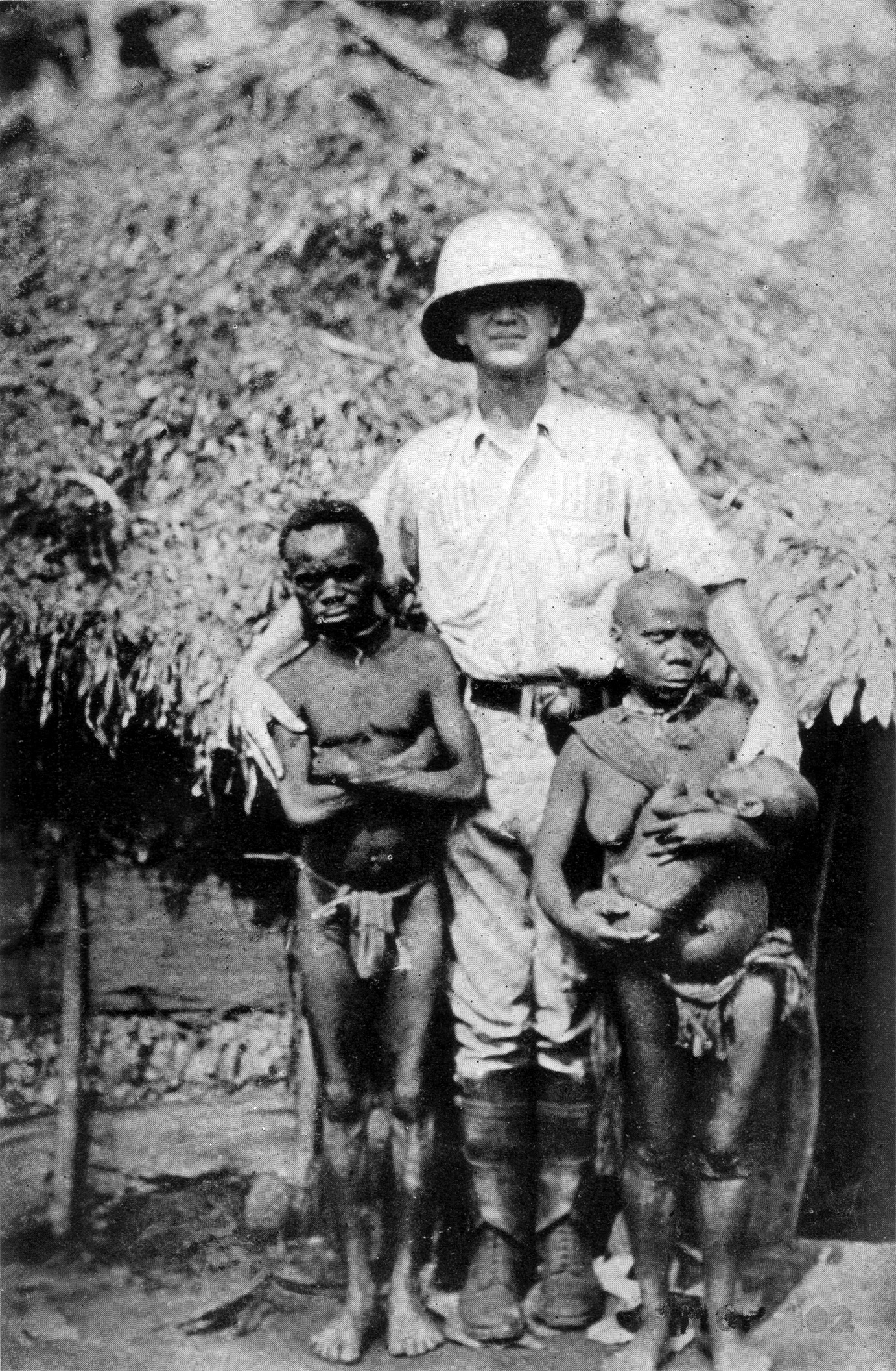 African pygmies and a European explorer